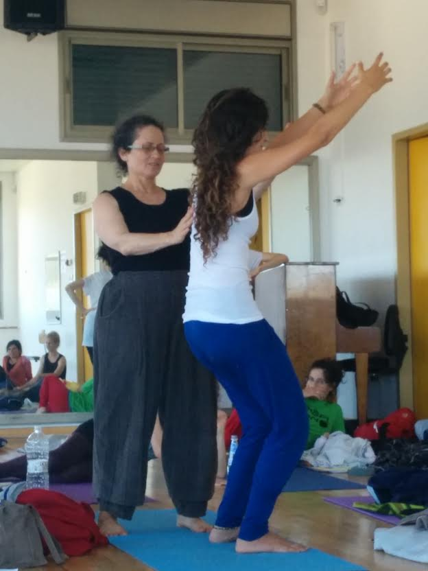 Orit Sen-Gupta guiding a student